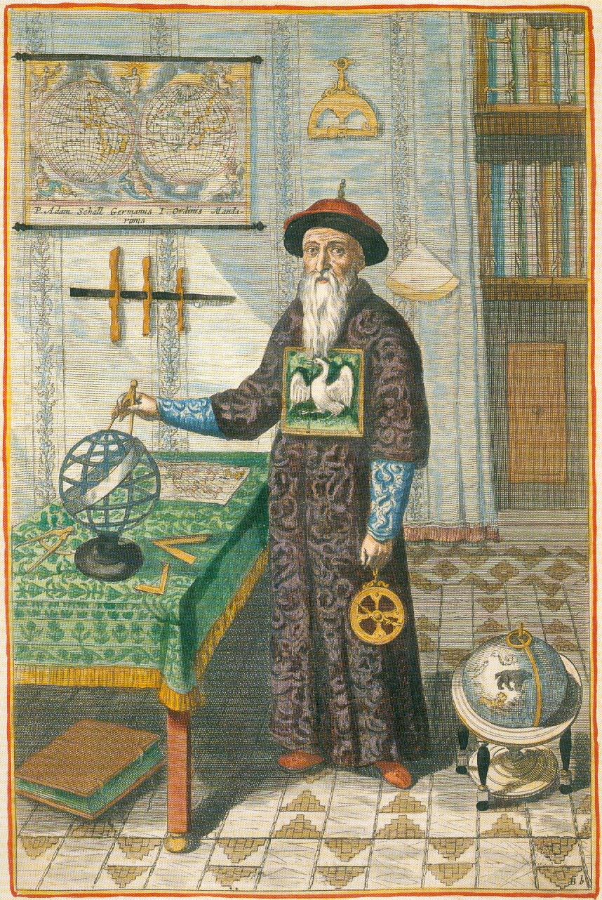 A portrait of German Jesuit Johann Adam Schall von Bell (1592–1666), who was a Jesuit missionary in China (Ming and Qing dynasties) from 1622 to his death in 1666. Hand-colored engraving, 31.1 x 21 cm.